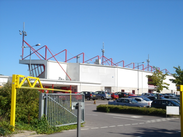 Entrance to the Broadfield football stadium, Crawley. Photographed on 4th August 2007.